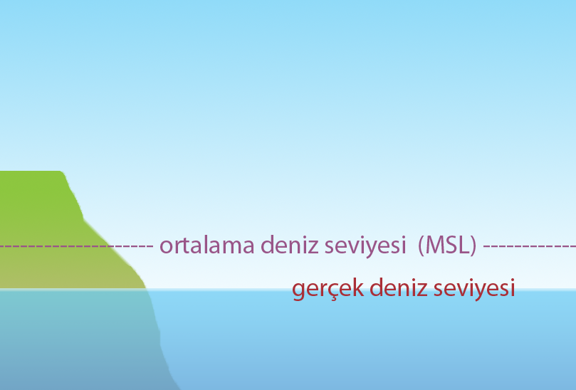 Mean sea level (MSL) and actual sea level